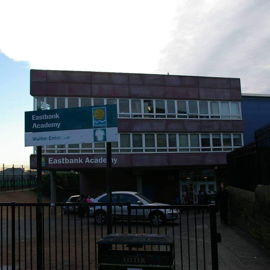 This is a picture of Eastbank Academy, a Scottish secondary school in the Glasgow suburb of Shettleston